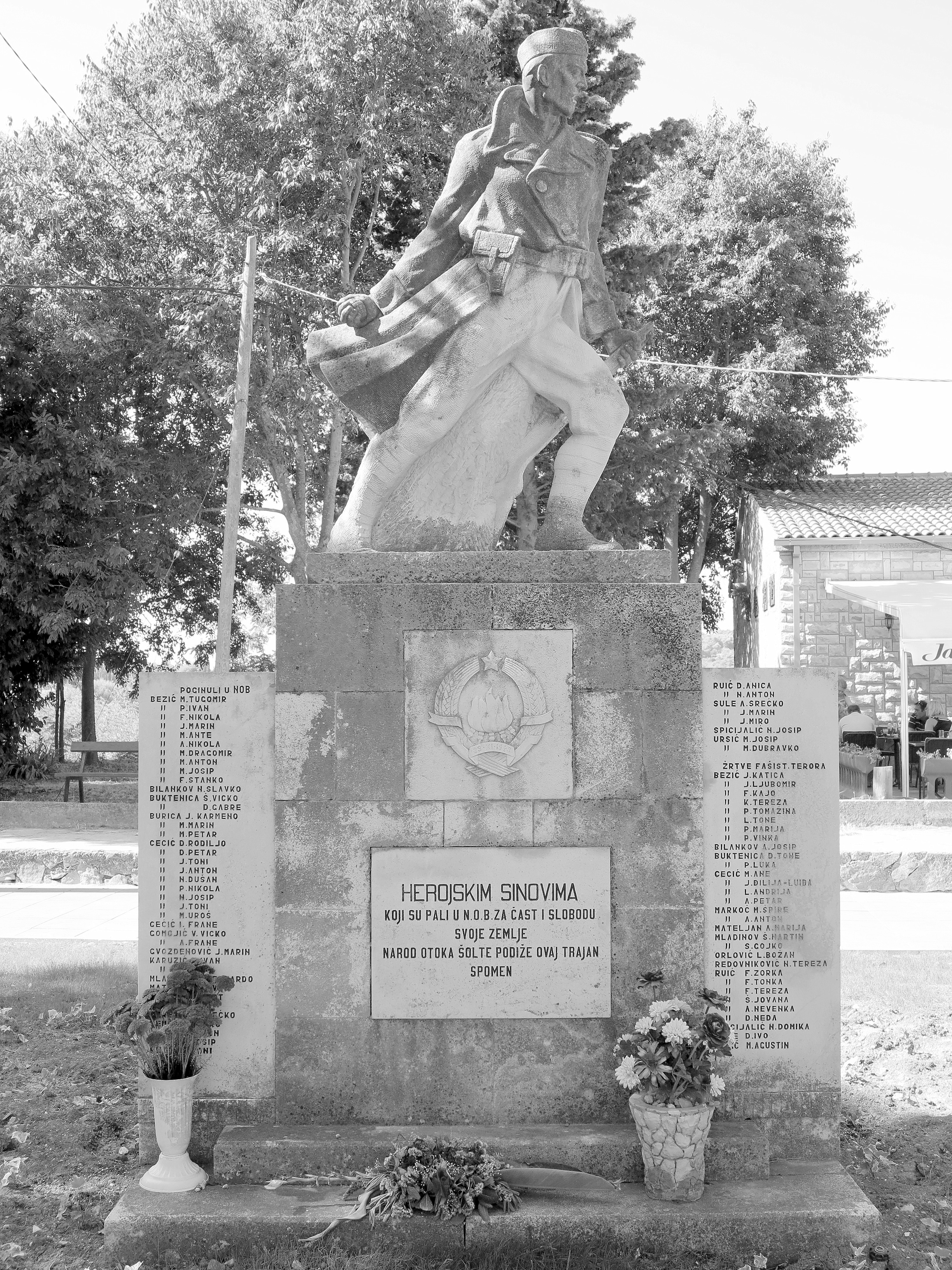 War Memorial in Grohote on the island Šolta / Croatia / Adriatic Sea.